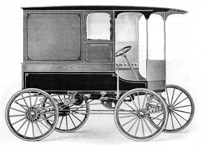 1909 Pratt delivery wagon made by the Elkhart Carriage & Harness Mfg. Co. of Elkhart, Indiana, and available by mail order. Visible are the steering wheel; the engine under the seat, and power transmission by chain to rear axle.